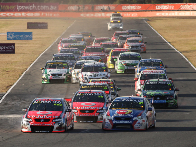 The start of race 2 on Saturday at the Coates Hire Ipswich 300 on August 20, 2011.